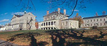 Kennebec Arsenal, August (Kennebec County, Maine) cropped NPS information This image or media file contains material based on a work of a National Park Service employee, created as part of that person's official duties. As a work of the U.S. federal government, such work is in the public domain in the United States. See the NPS website and NPS copyright policy for more information. Object location44° 18′ 29″ N, 69° 46′ 10″ W